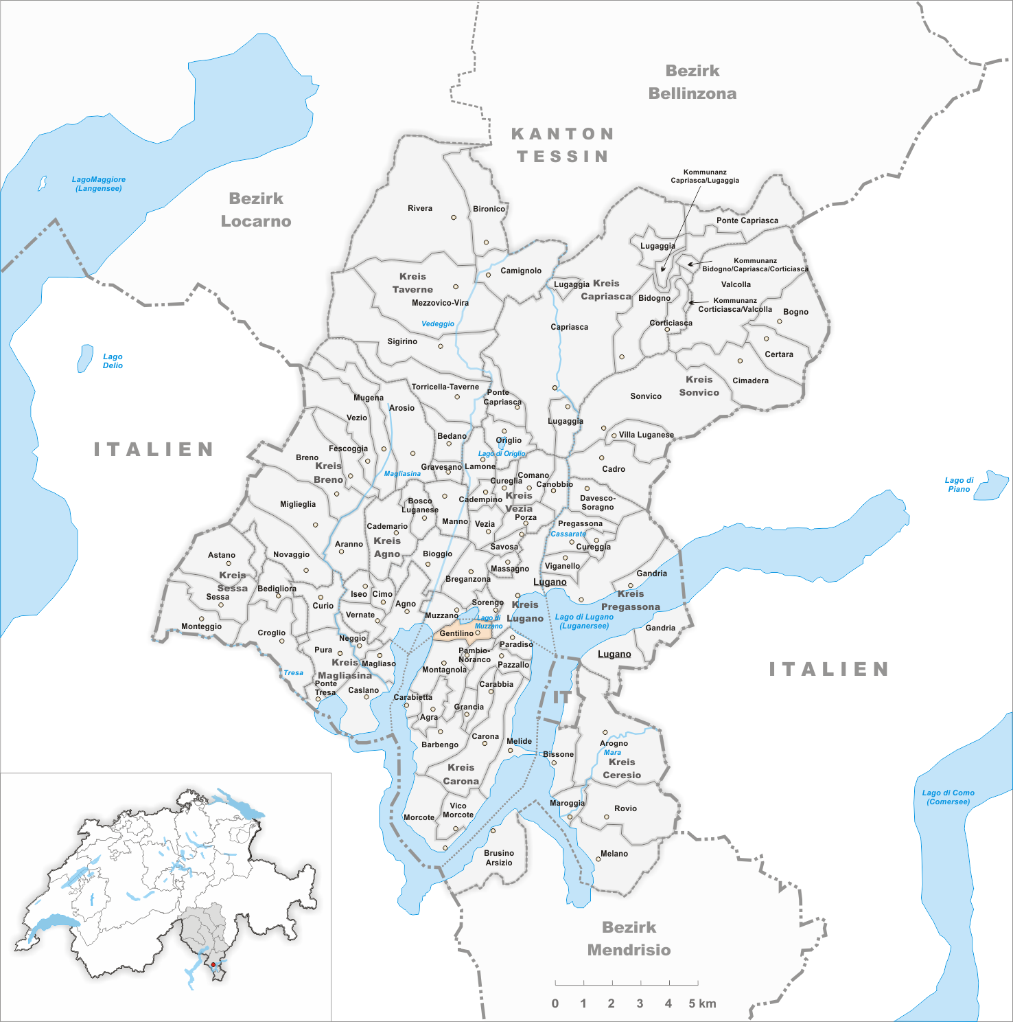 Municipality Gentilino Artist: Tschubby